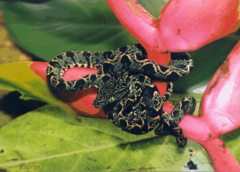 Small Corallus hortulanus from Peru